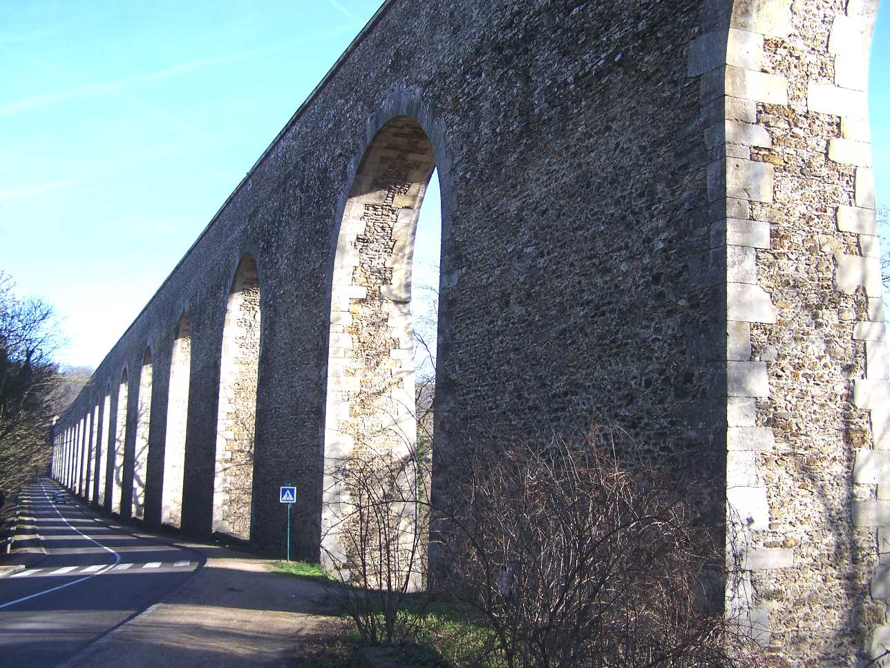 Arches of the aqueduct of de Buc (Yvelines, France)